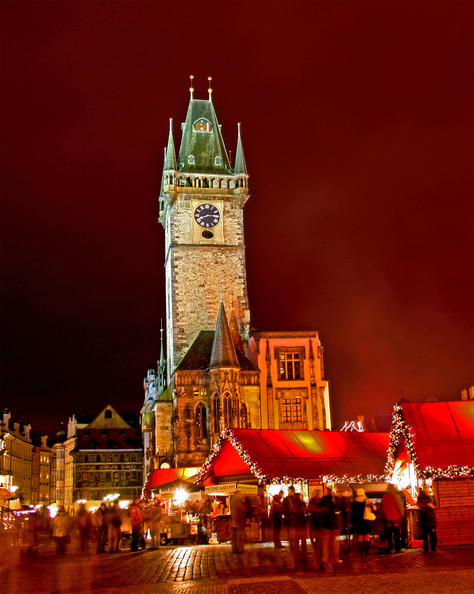 Christmas market on Old Town Square, with Old Town town hall on background, Prague 2008